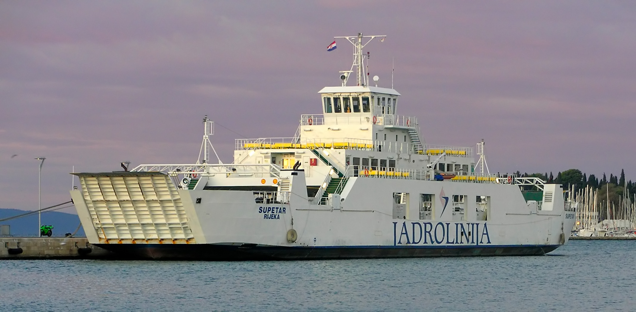 "Supetar" ferry of Jadrolinija in Split, Croatia Information about Supetar may be found at IMO 9328182.A ship can change name and flag state through time, but the IMO number remains the same through the hull's entire lifetime. As a result, it can be useful to identify a ship by using the IMO number.